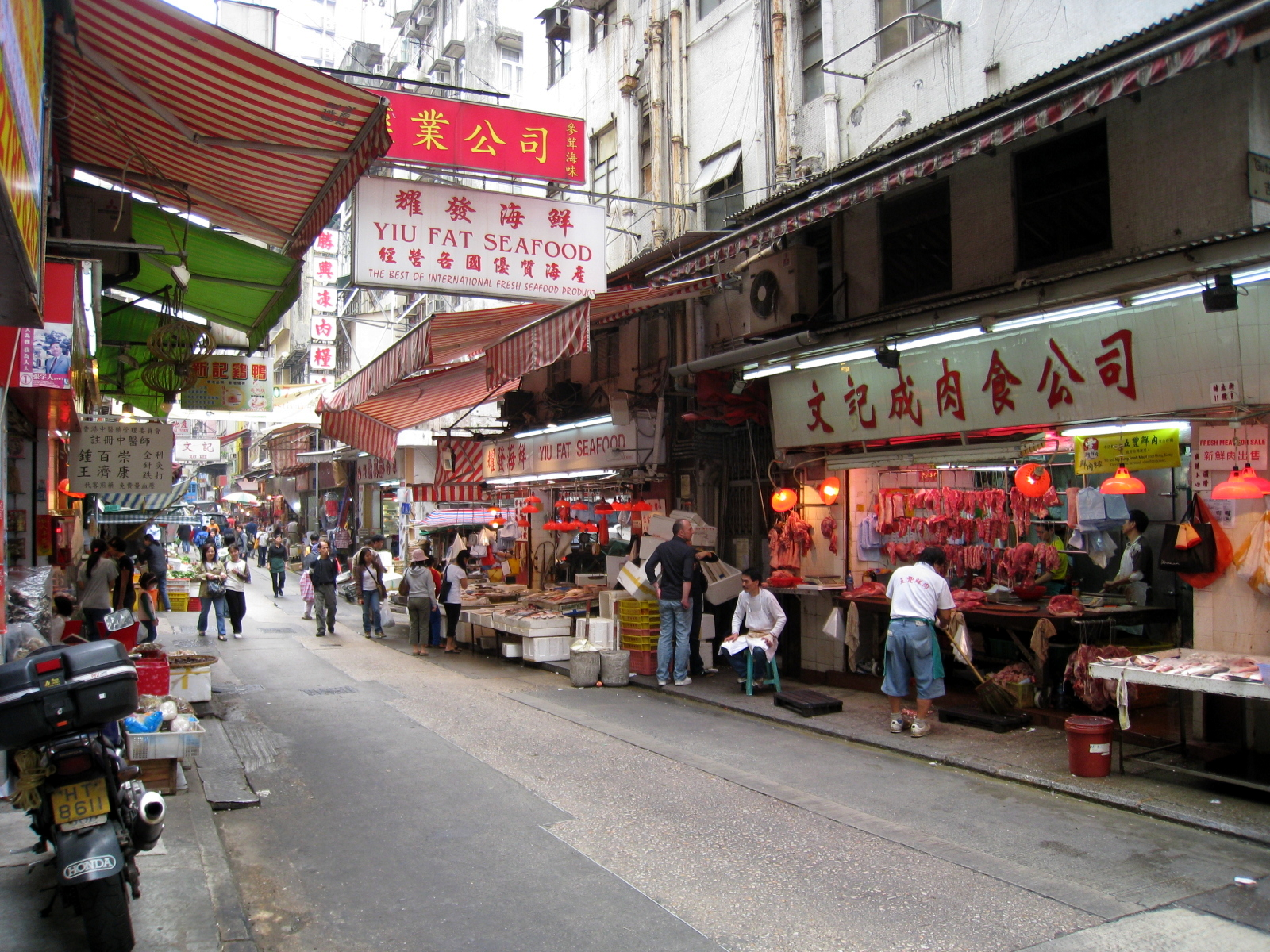 HK Central Gage Street